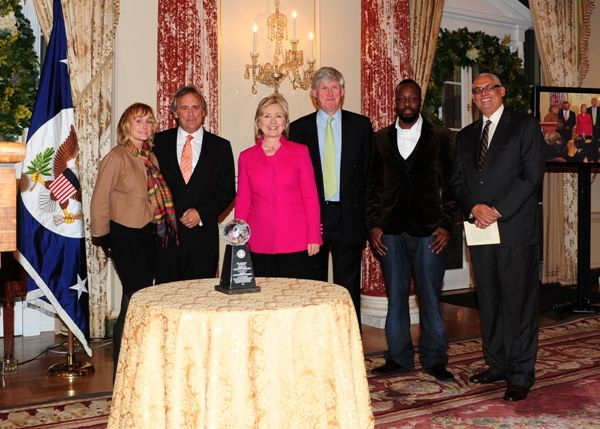 Secretary of State HIllary Clinton with Trilogy Executives (left to right): Gwynne Beatty; CEO Brad Horwitz; Chairman of the Board John Stanton; musician Wyclef Jean; and President of Voila Foundation Bernard Fils-Aime. Secretary Clinton presented the 2009 Award for Corporate Excellence in the multinational enterprise category to Trilogy International Partners, the U.S. parent company of ComCEL/Voilà.